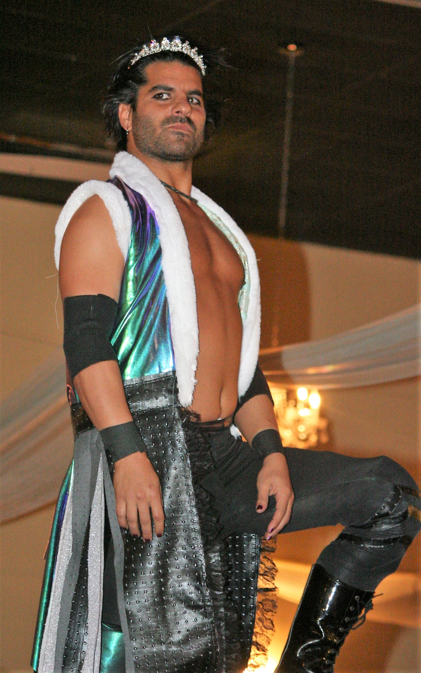 Jimmy Jacobs at AWE's Show of the Year 4 in Marietta, Georgia in December 2017